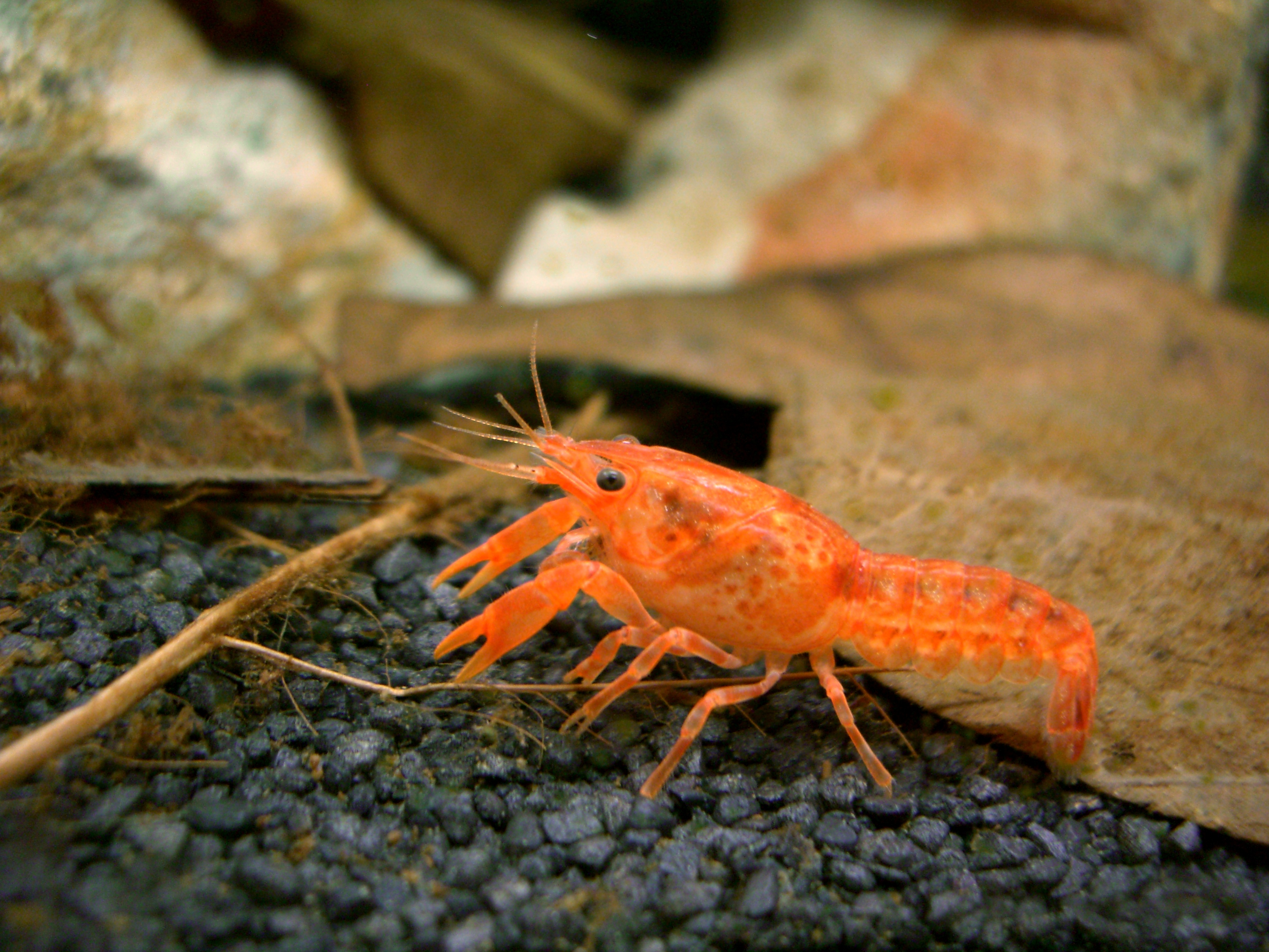 An orange-coloured mutation of Mexican dwarf crayfish, Cambarellus patzcuarensis var. "Orange"